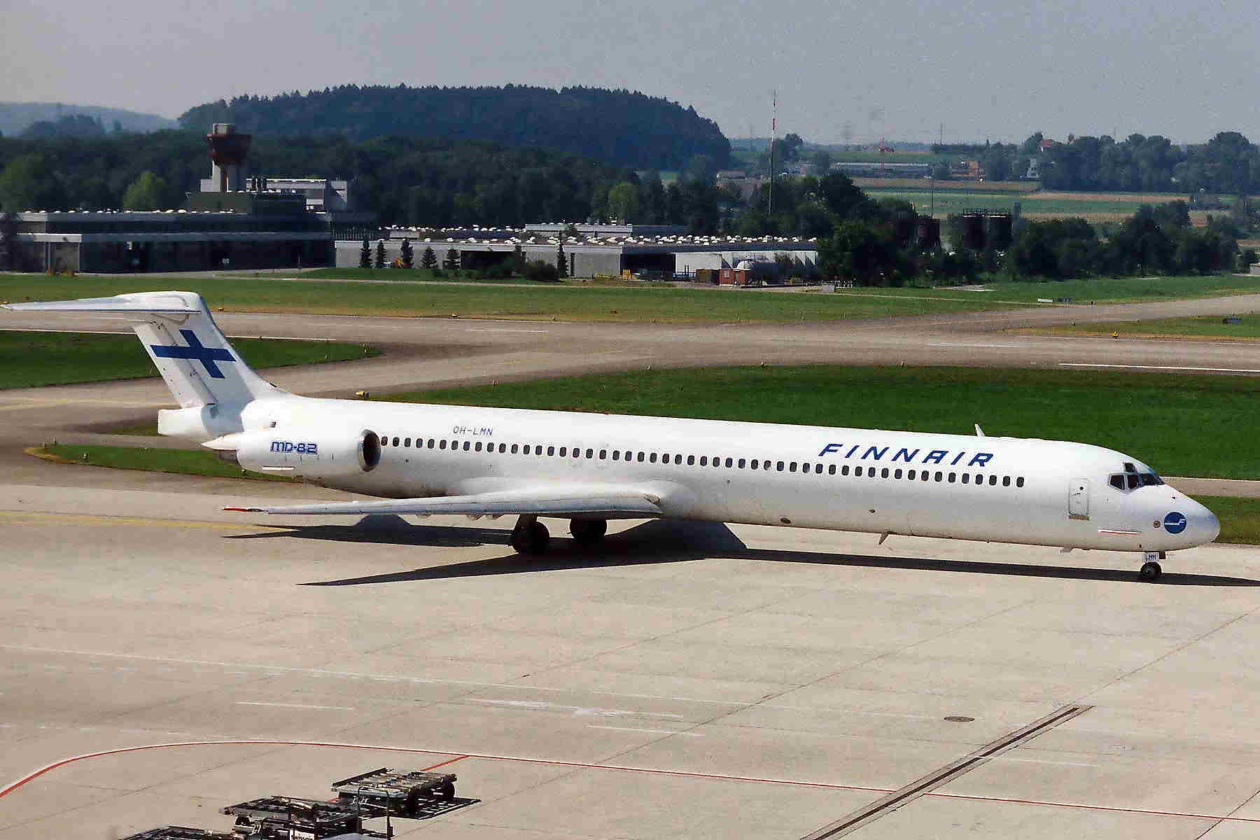 A Finnair McDonnell Douglas DC-9-82 (MD-82) aircraft (OH-LMN) at Zurich International Airport in August 1998.